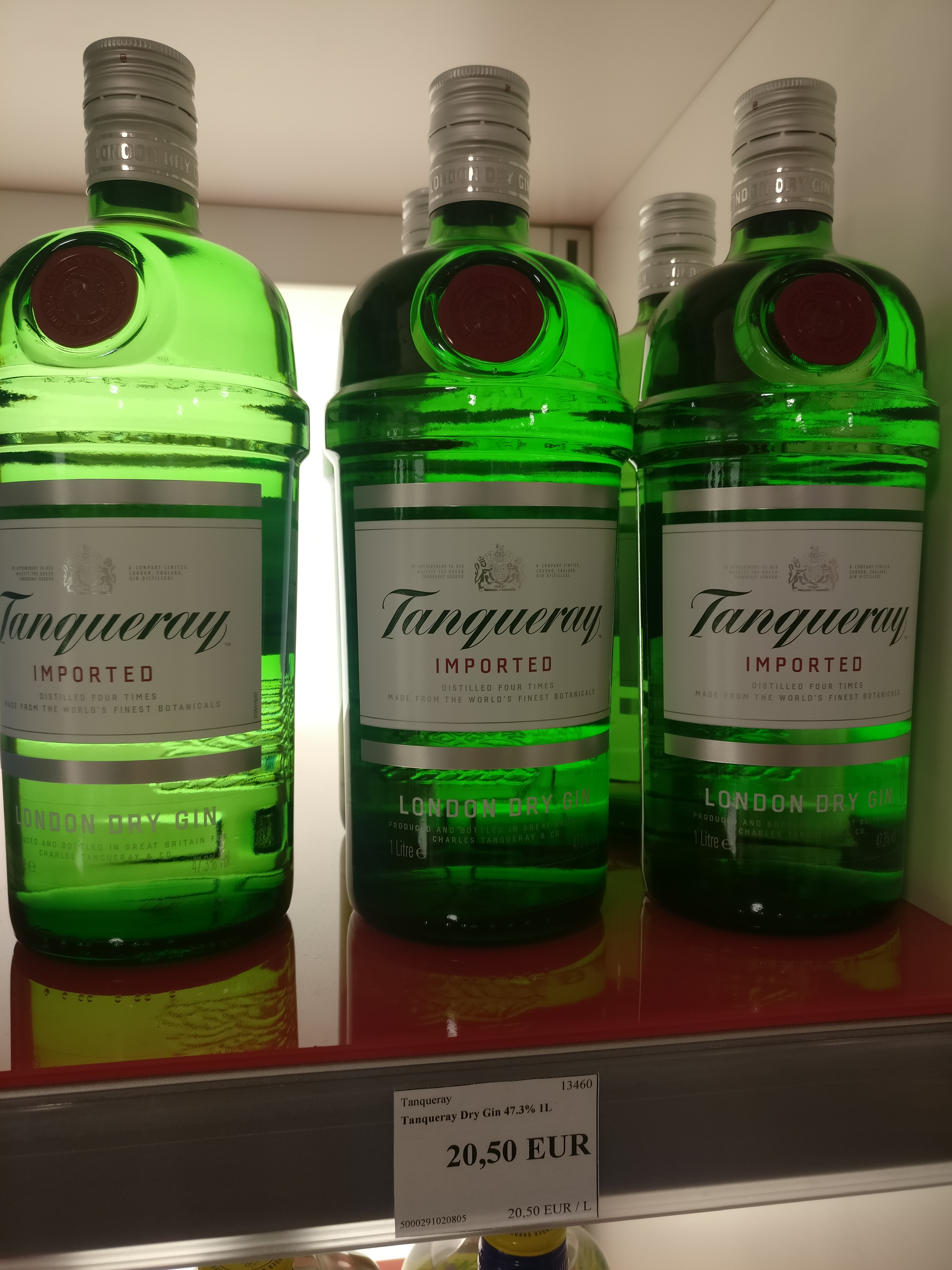 Tanqueray gin in a Heinemann dutyfree at Copenhagen Kastrup Airport